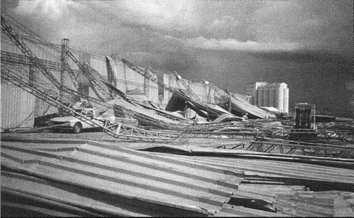 The World Food Programme warehouse in Nacala, Mozambique collapsed as a result of 90 mile-per-hour winds from Cyclone Nadia